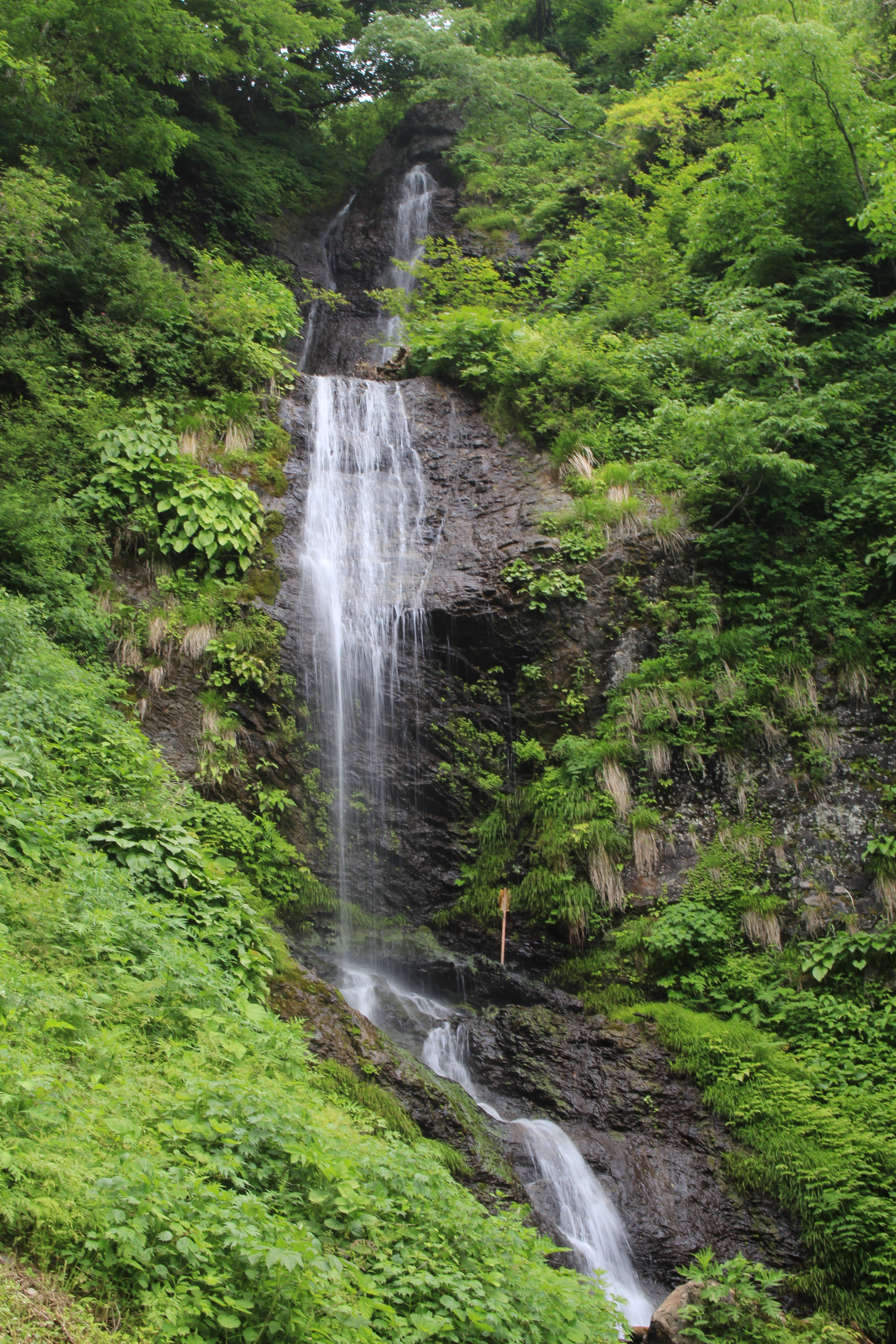 Gochoshi Waterfall in Mount Yokoyama, Nagahama, Shiga prefecture, Japan.